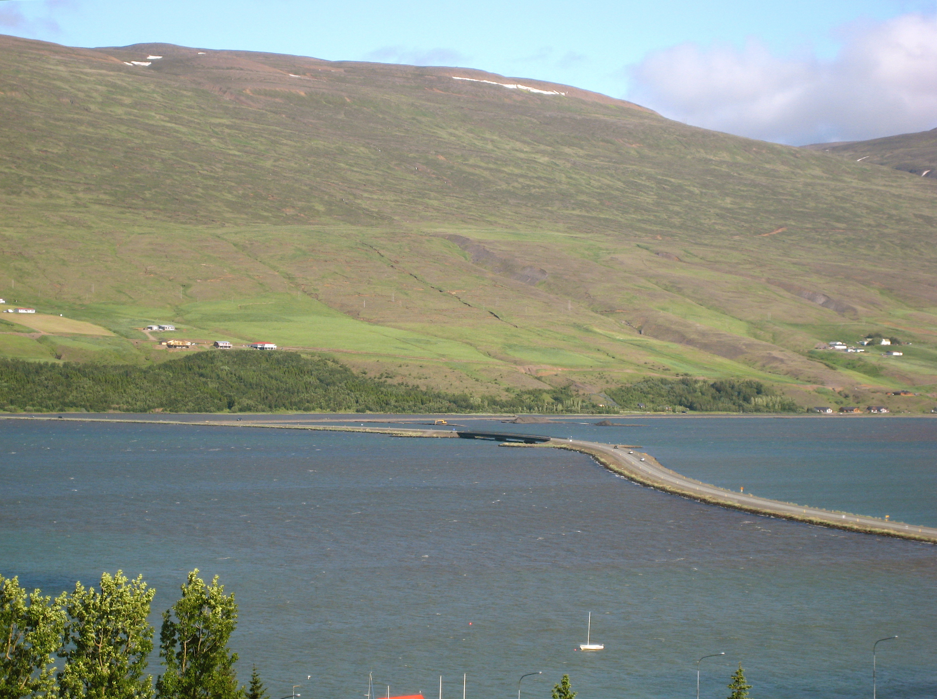 Leiruvegur is a part of the Icelandic ring road that runs over Eyjafjörður.